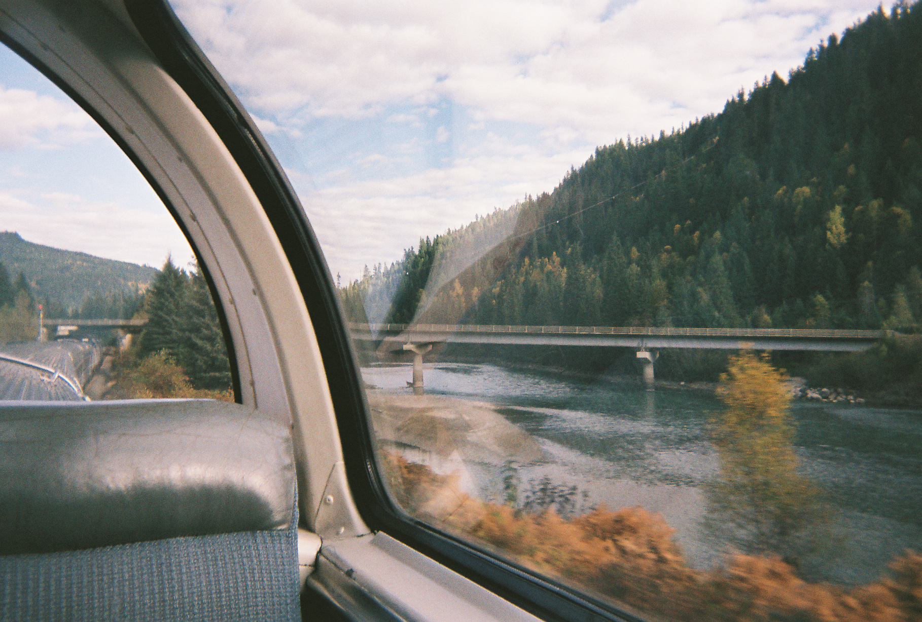 The Northern Thompson River as seen from the train as the train heads north through British Columbia. I took the photo myself in October 2012.